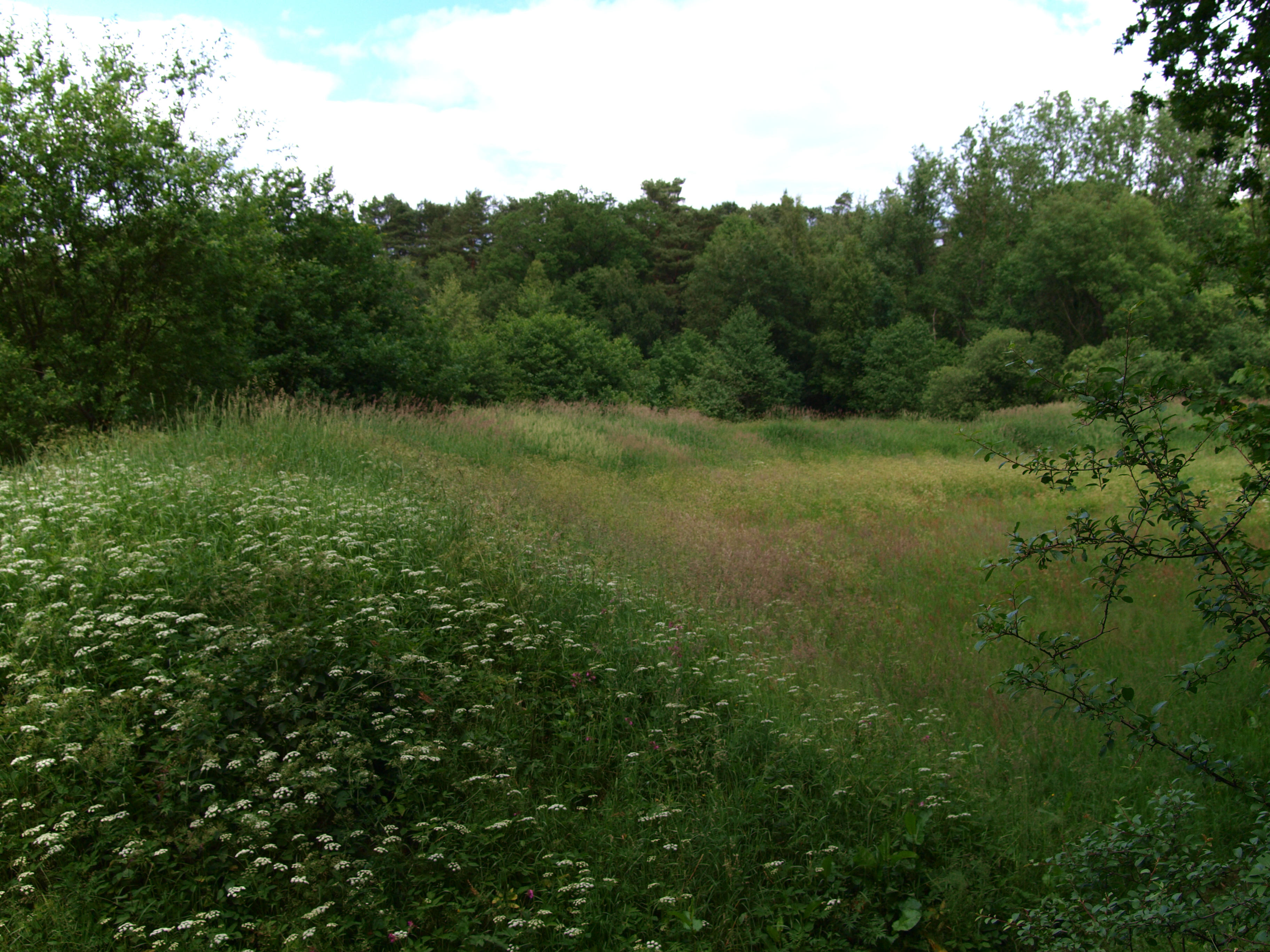 Burgwall Hollenstedt, or Karlsburg or Burg Hollenstedt. A reconstructed lowland castle of the Carolingian period 9th century A.D. Western part of the site. Left a part of the circular rampart, right inner courtyard.